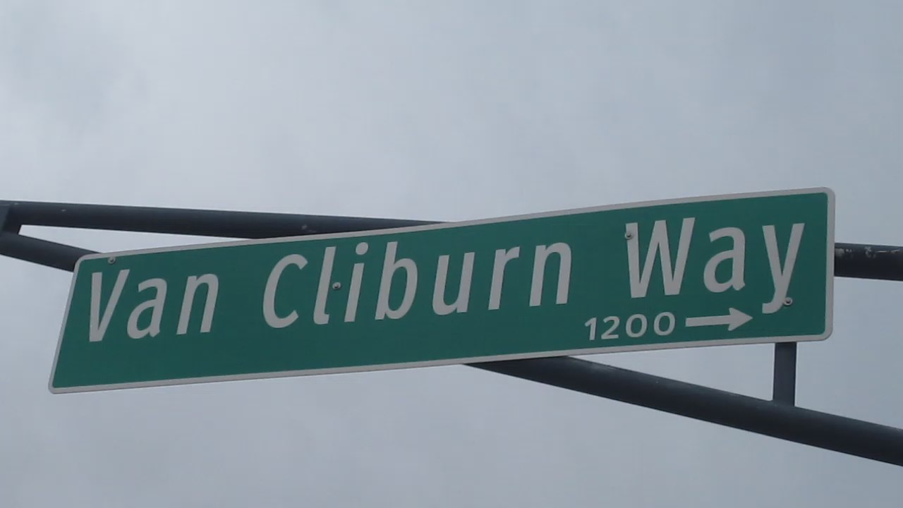 I took photo with Canon Camera.